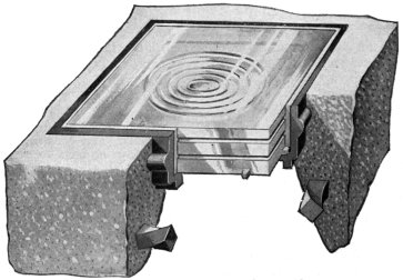 An armoured, replaceable element for a pavement light